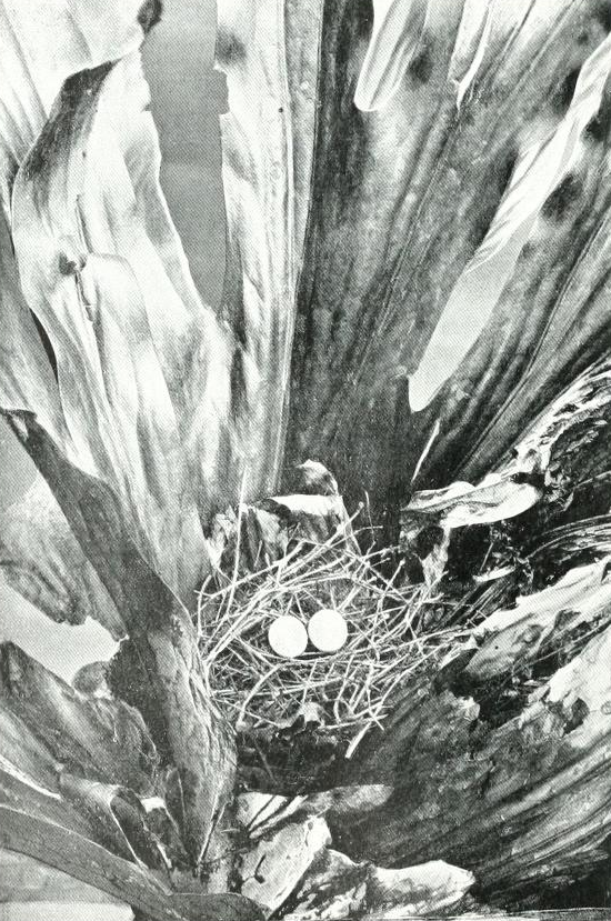 Nest of Emerald Dove Chalcophaps (indica) longirostris. Author states that it's build on fern. Taken in Copmanhurst, New South Wales